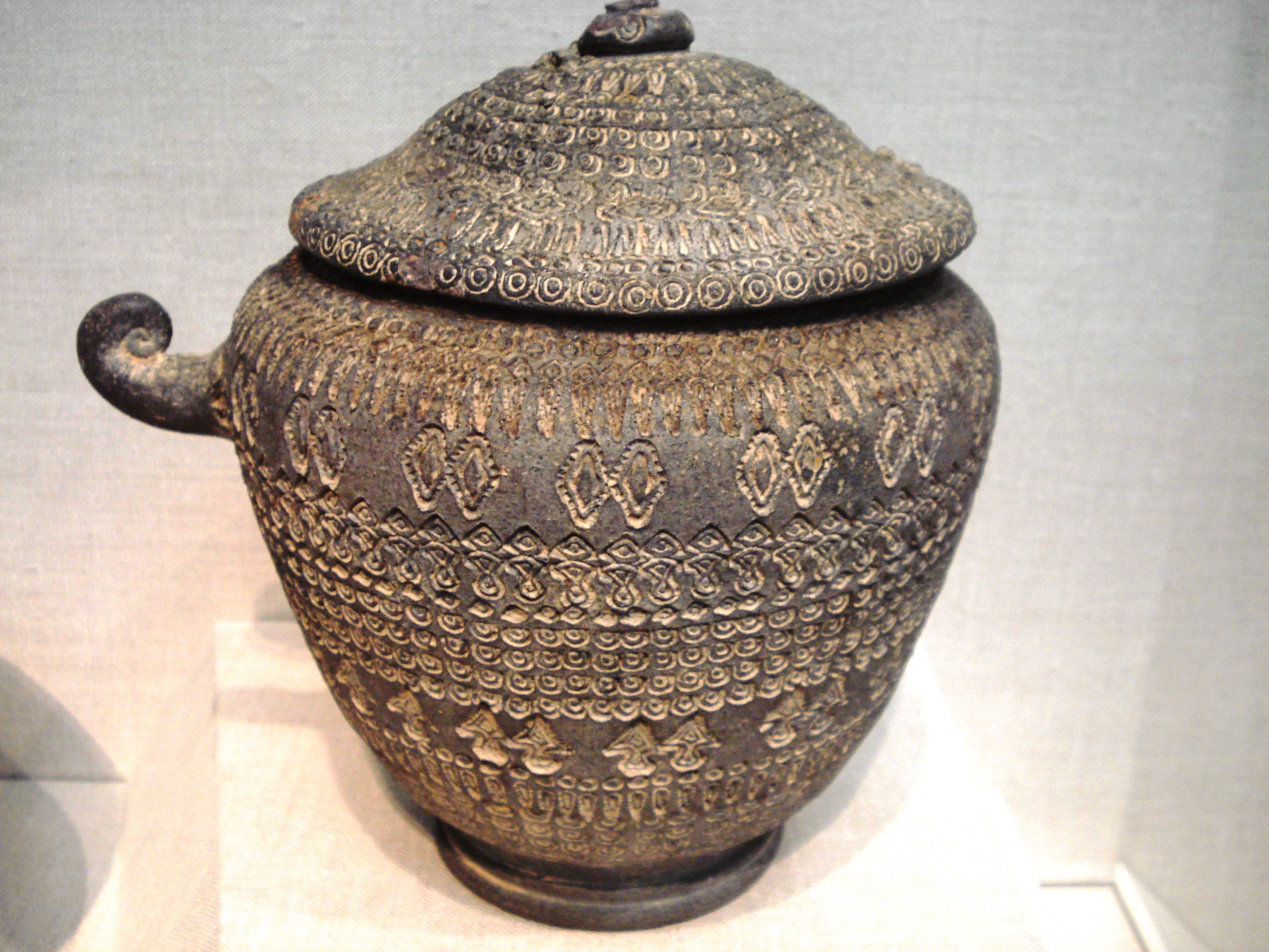 A Korean cinerary urn made of unglazed stoneware with varied stamped designs, from the Unified Silla period, dated to the 8th century.